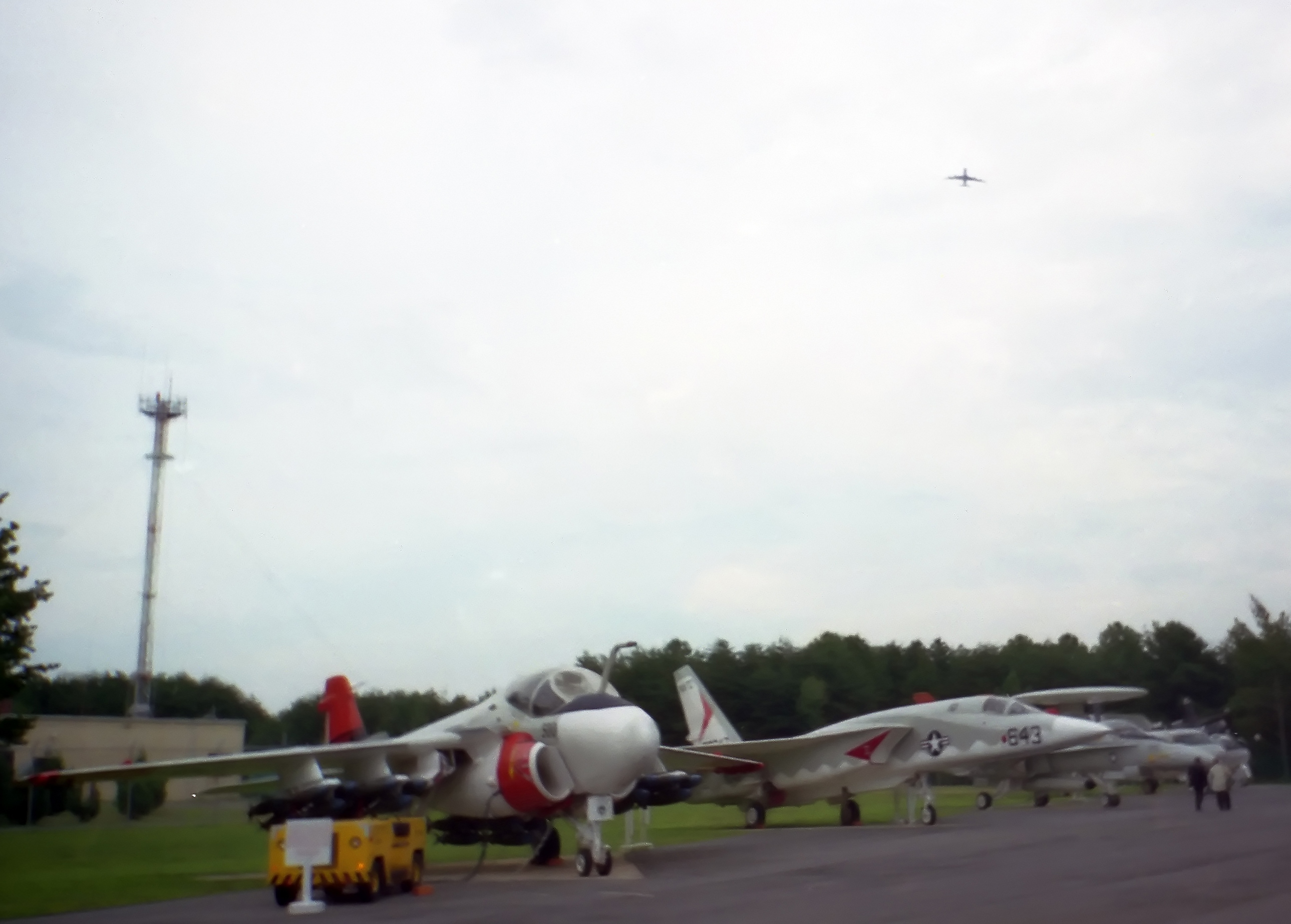 Photo taken in 2003